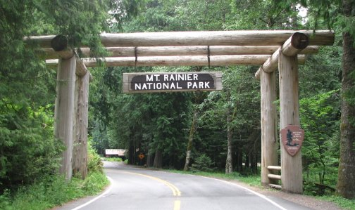 The Nisqually Gate at Mount Rainier National Park, Washington, United States, a dramatic example of National Park Service Rustic architecture. Taken by Charles T. Betz on family vacation July 2007.